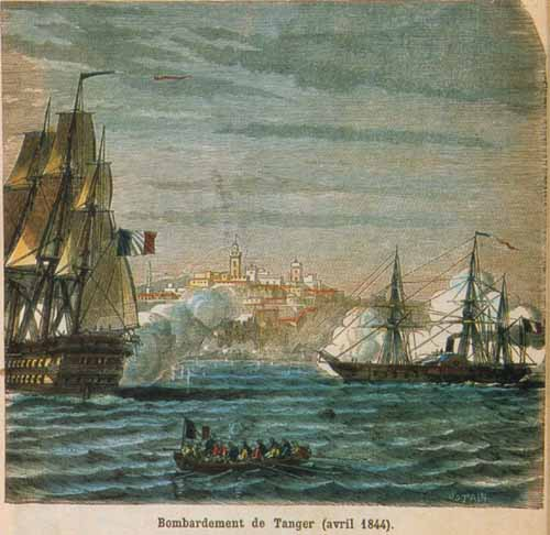 Bombardment of Tangiers, engraving by N.E. Sotain.